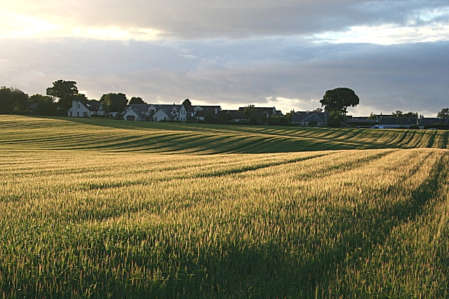 Urquhart at Sunset, near to Urquhart, Moray, Great Britain. The setting sun picks out unevennesses in the growing crop just south of Urquhart.